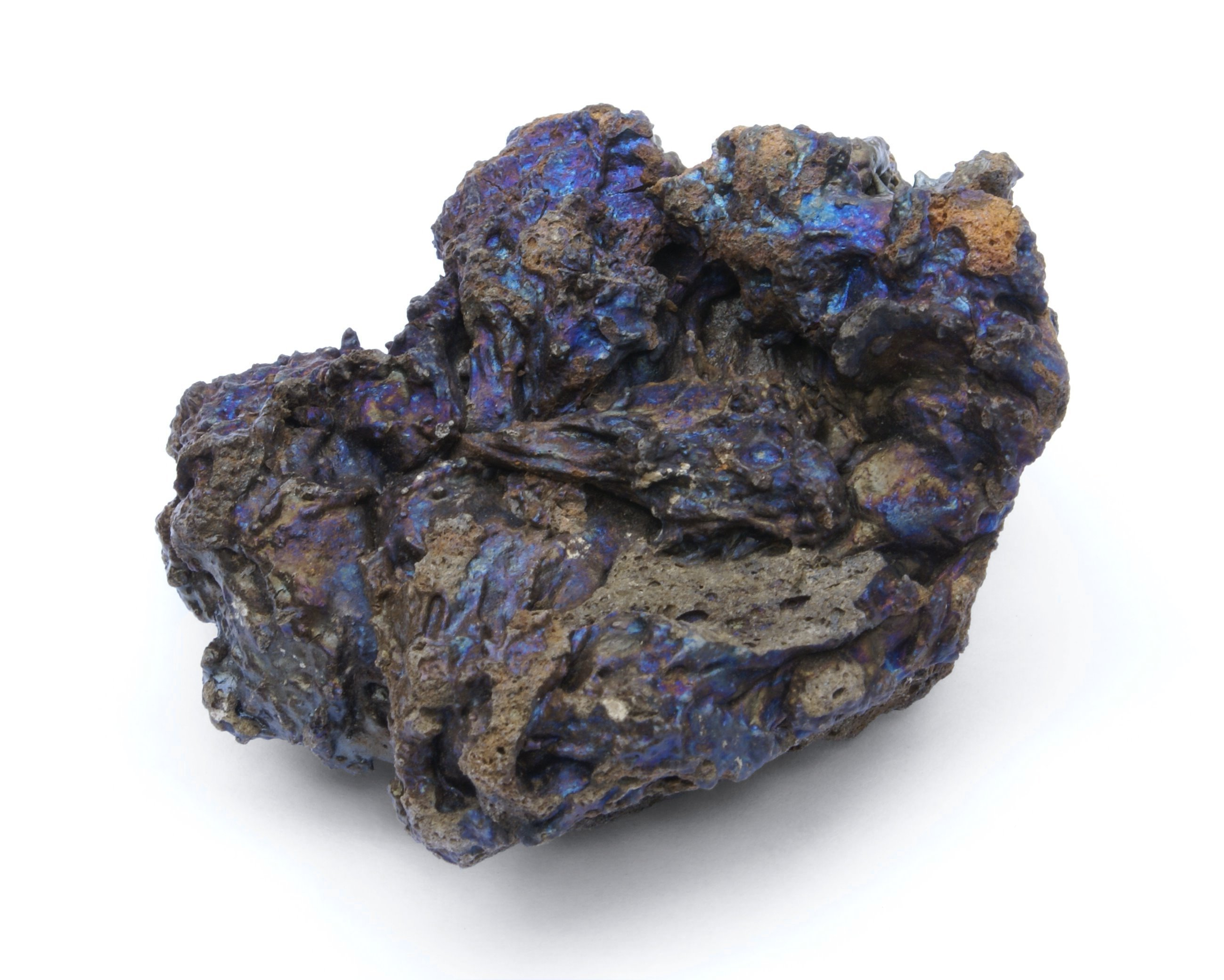 Basaltic scoria (about 8 cm large) coming from Amsterdam island ; blue iridescent color could be caused by interferences phenomenon in a thin and smooth layer of hematit (Fe2O3)